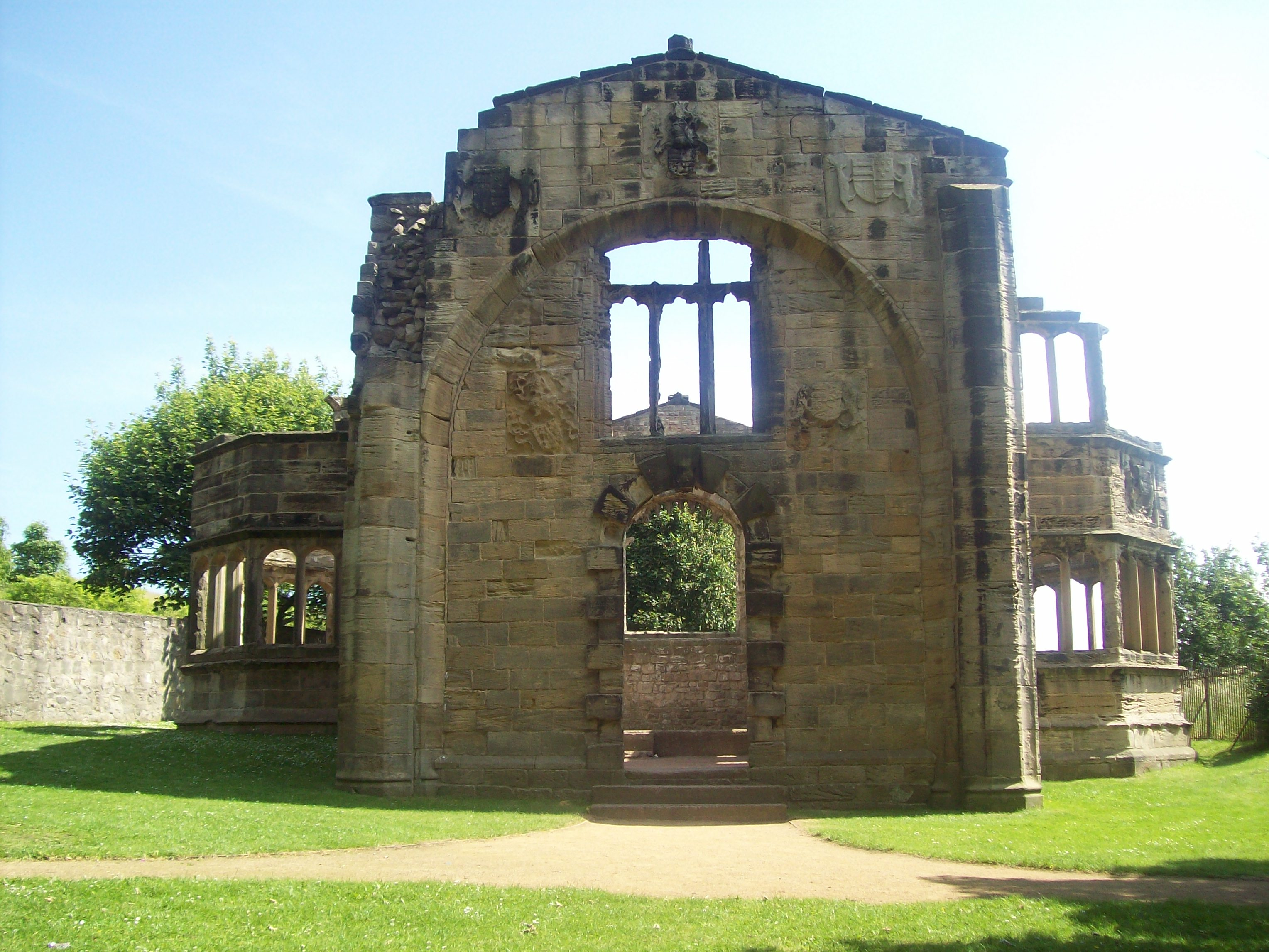 Chapel of Catherine of Alexandria, Hylton Castle